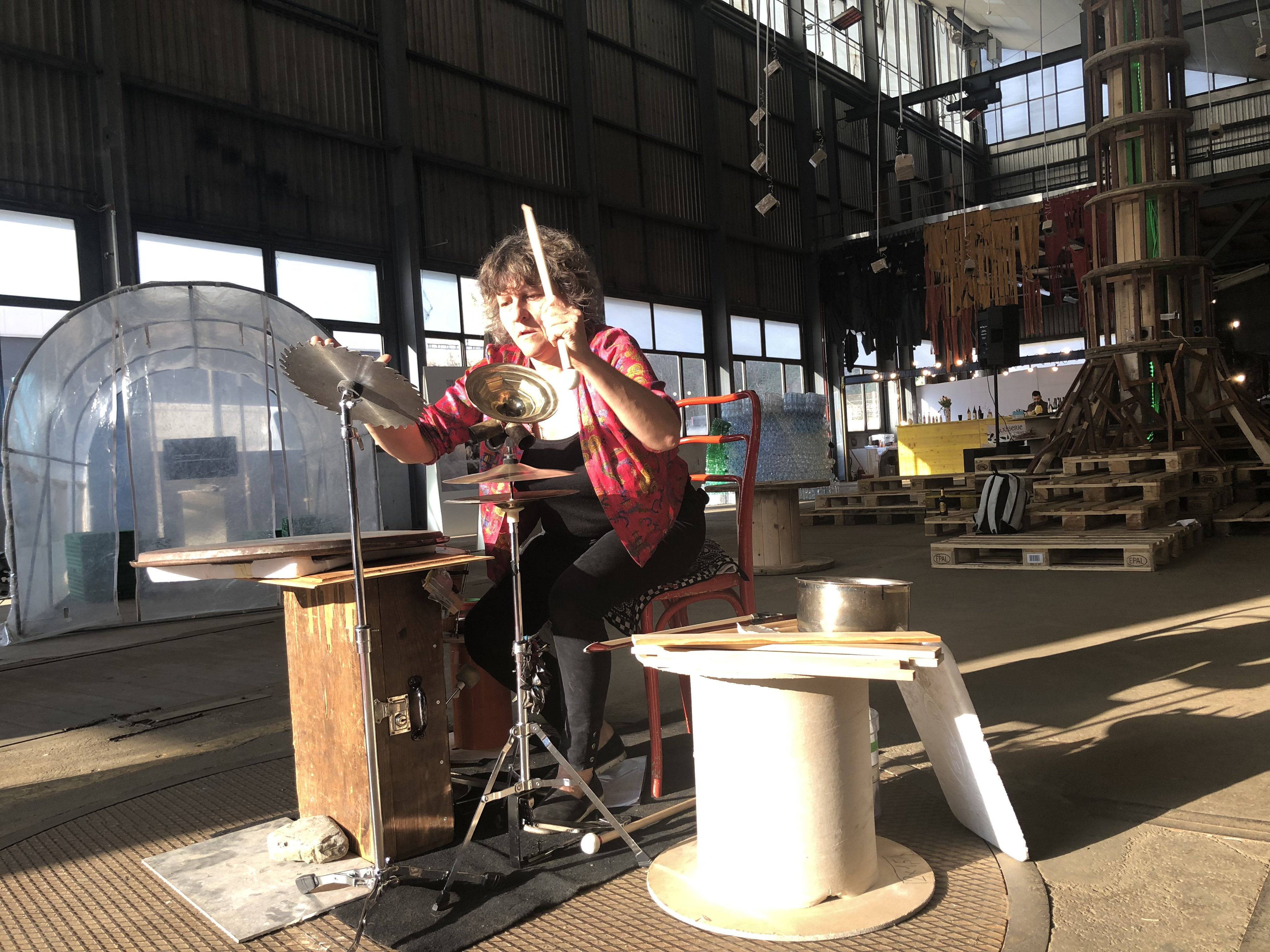 Béatrice Graf playing at thr Low festival, in Cossonay March 30, 2019